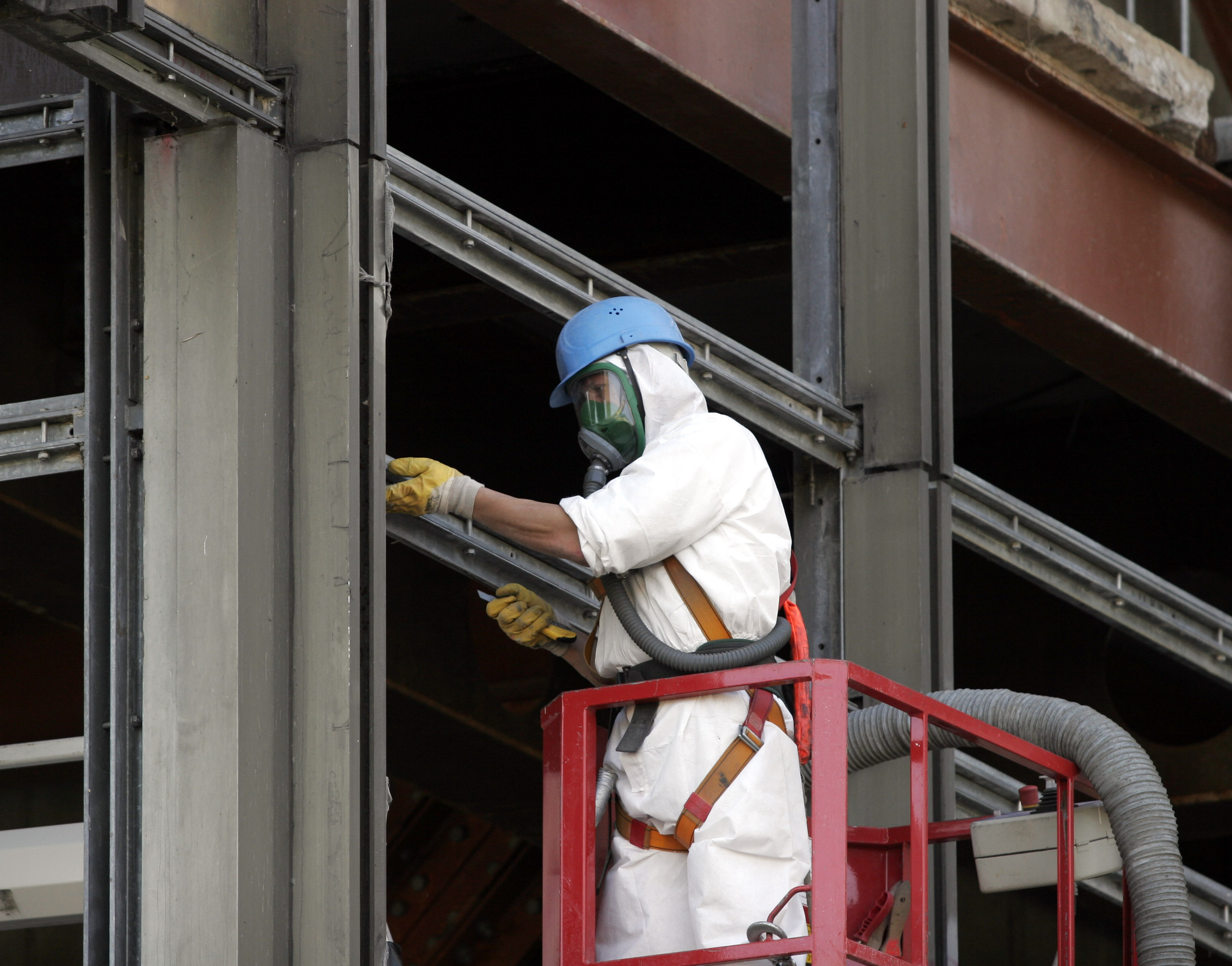 Asbestos removal with full protection and soure exhaust during the demolition of the Palast der Republik in Berlin (Germany)